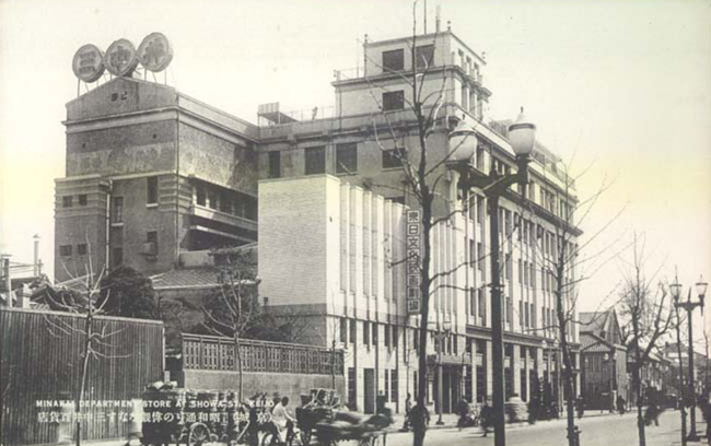 Minakai Department Store Keijō Head Store